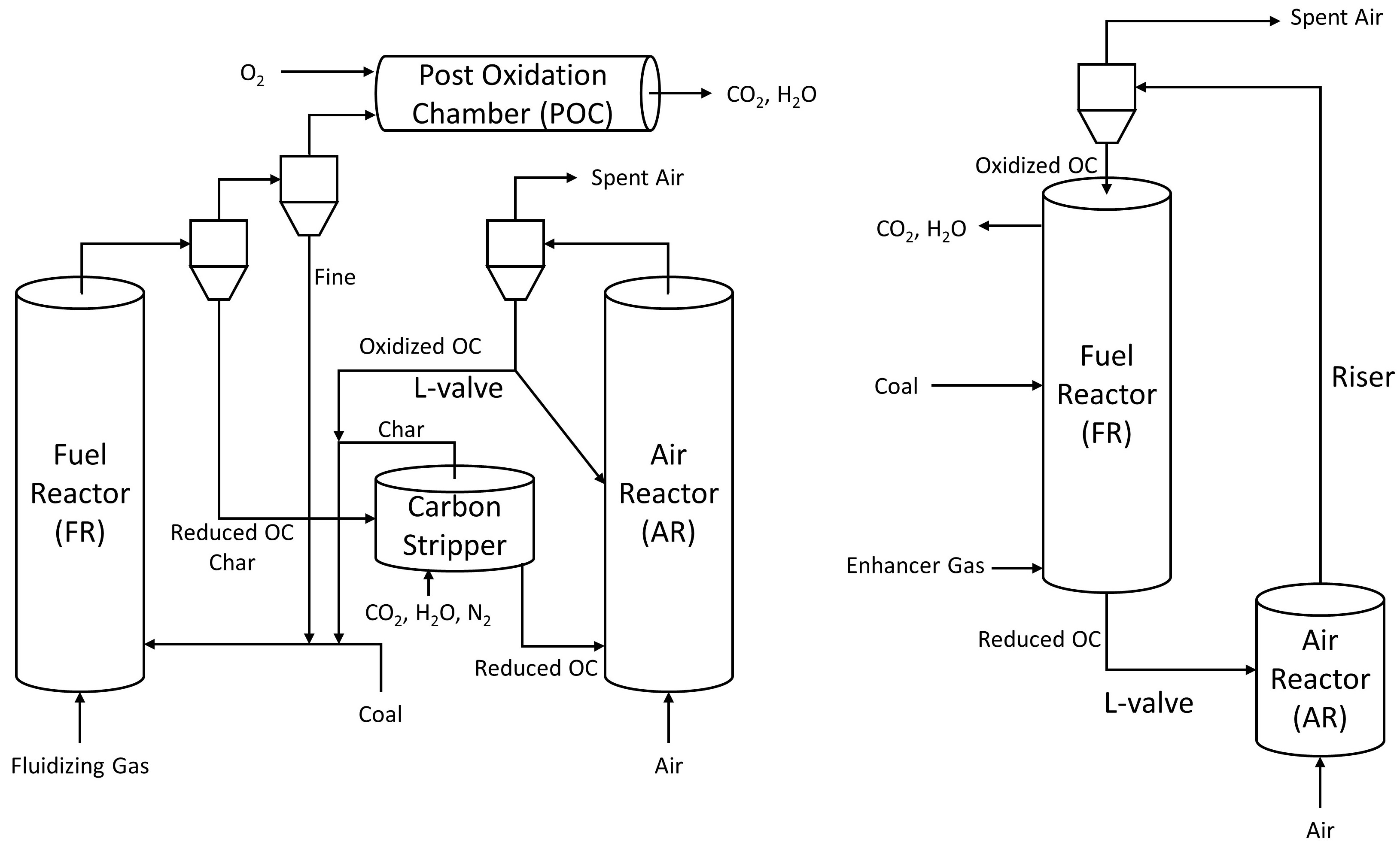 examples of chemical looping combustion configurations